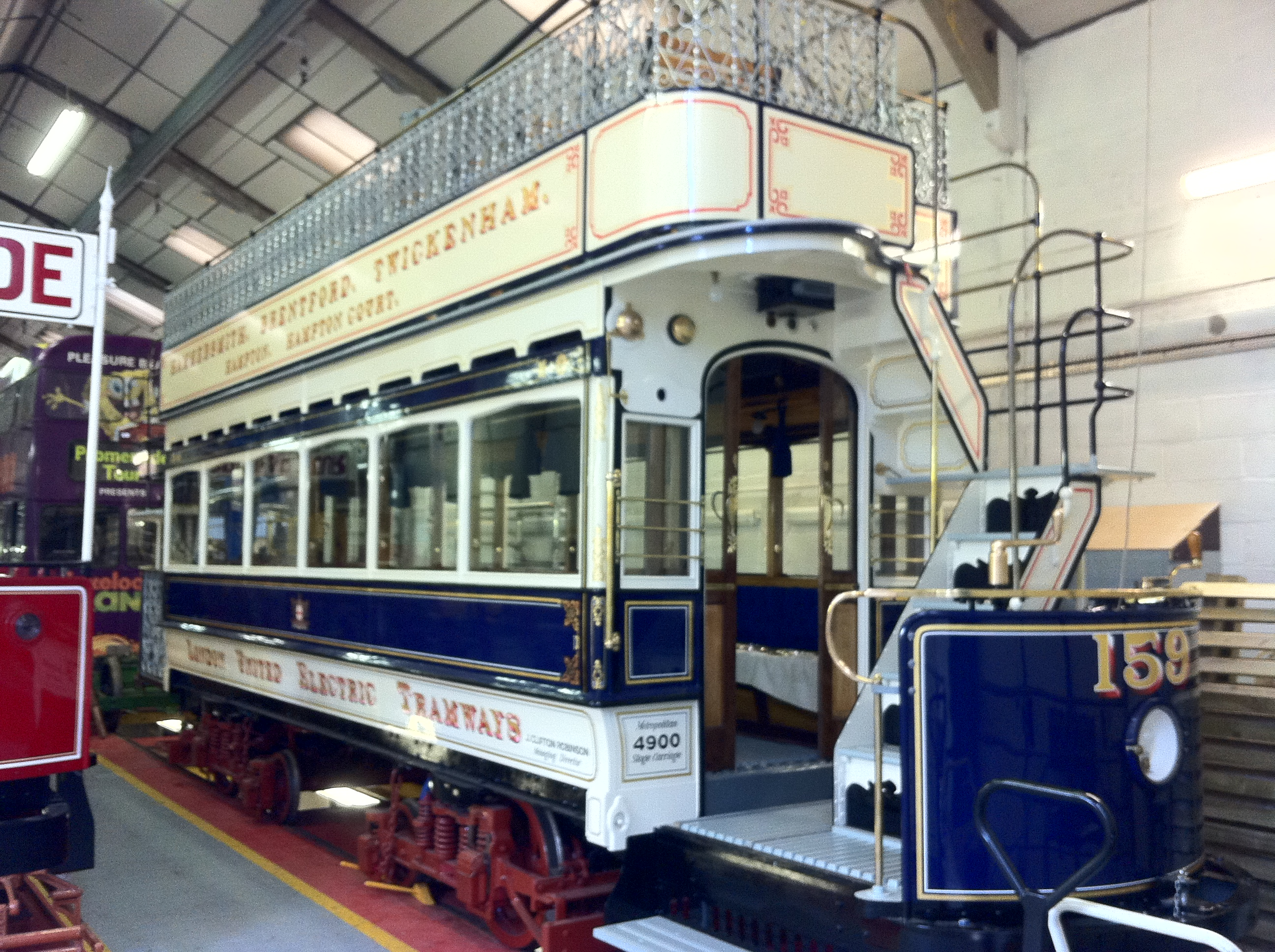 A London United Electric Tramways double decker car number 159 on display at the National Tramway Museum in Crich, Derbyshire.